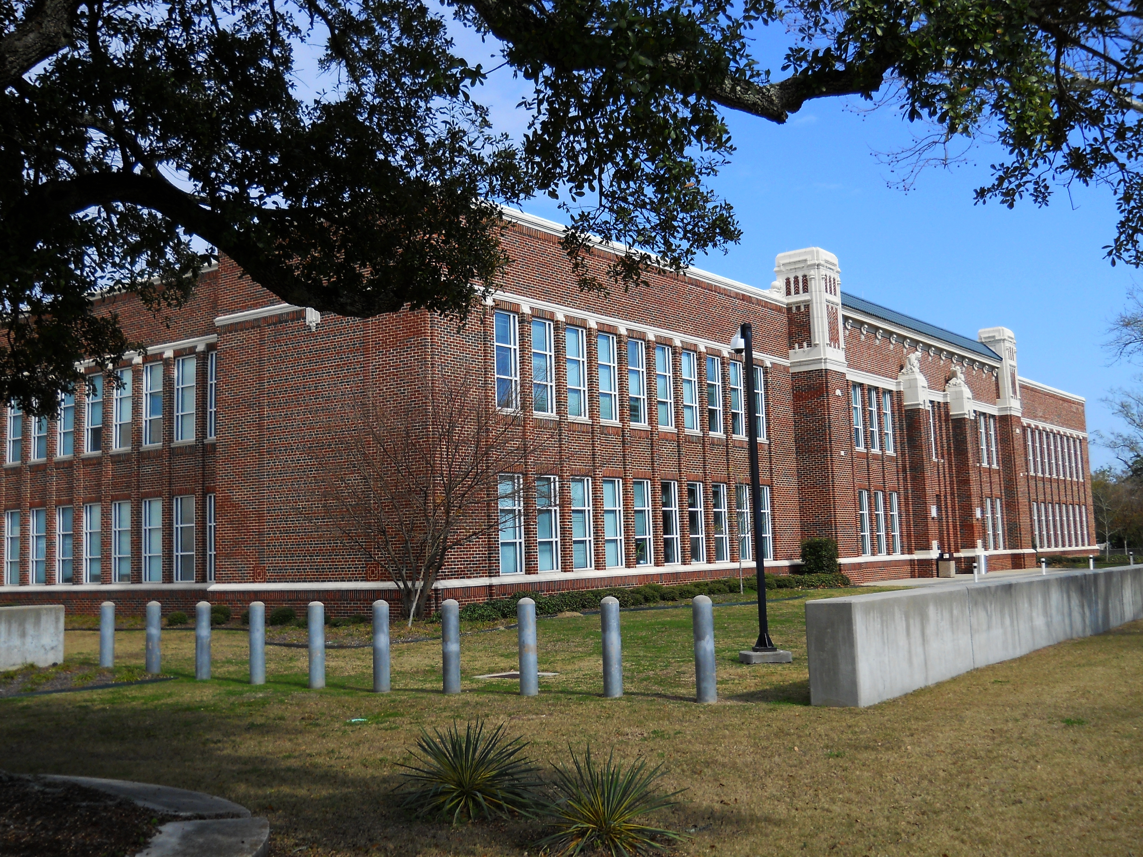 Front facade of the old Gulfport High School, Gulfport, Mississippi, USA. The building is now part of the Dan M. Russell, Jr. United States Courthouse complex.